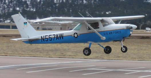 Cessna T-51A of the USAFA Flying Team